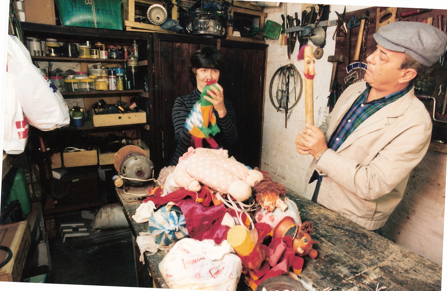 Elisa Godoy & Humberto Gulino in their puppet workshop